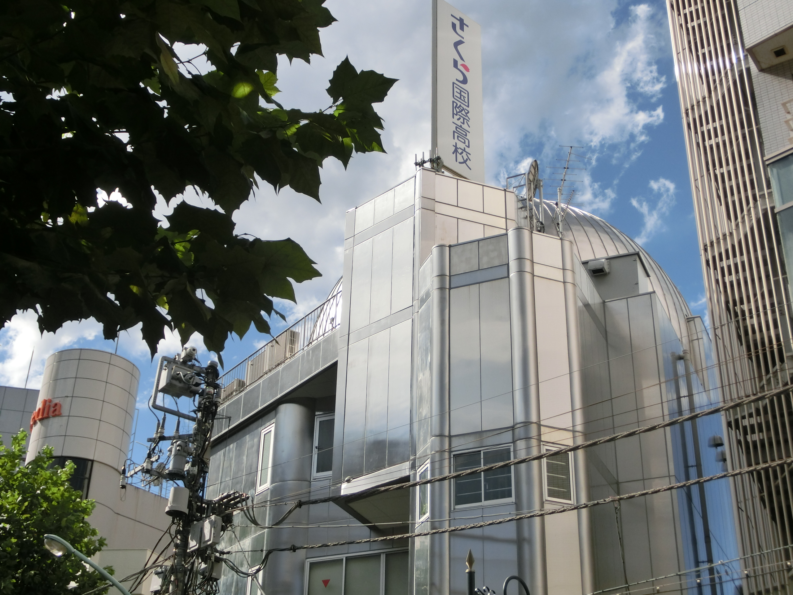 Sakura International High School Tokyo School